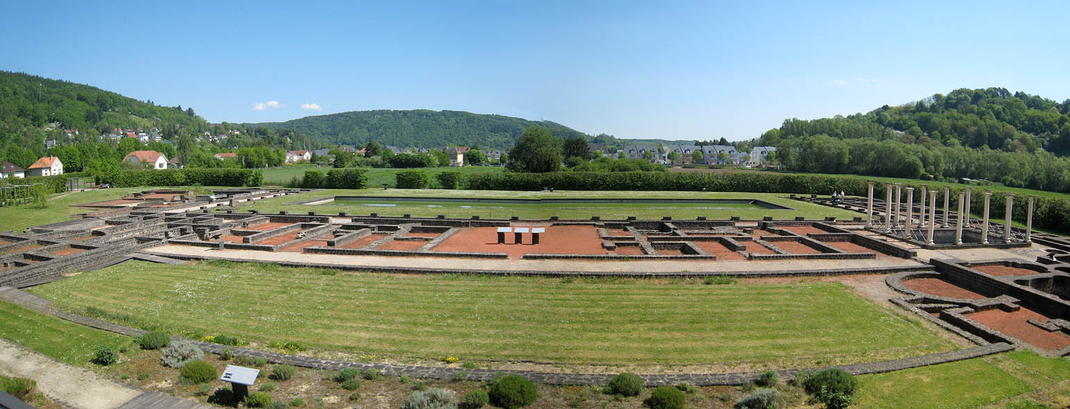 Echternach Roman villa. Panorama composed of two original photos.